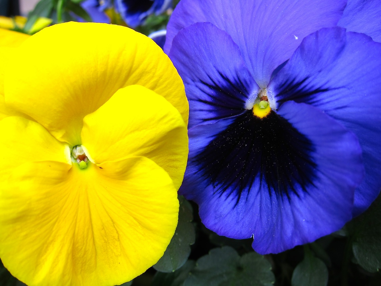 Viola cultivars